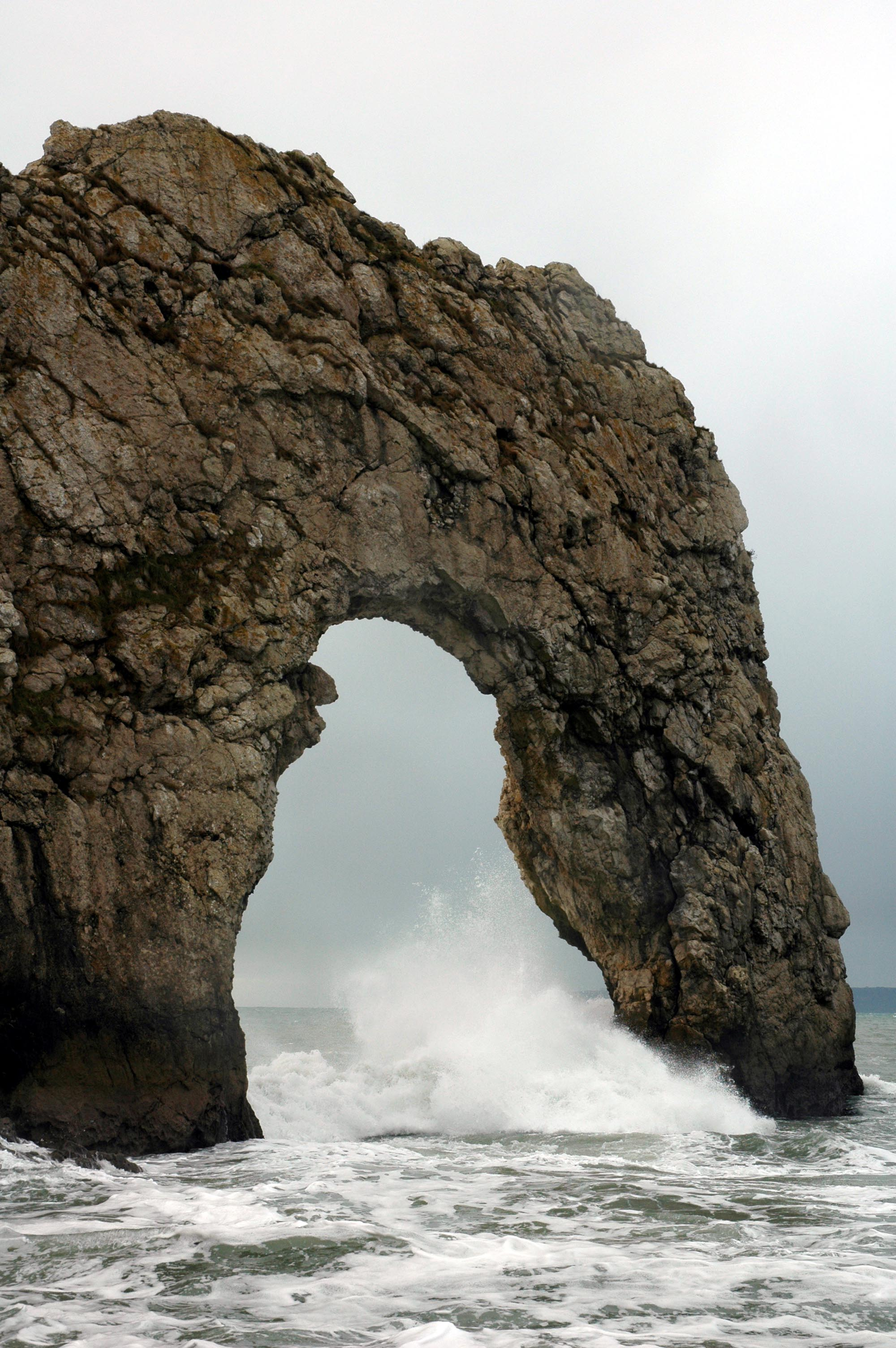 Durdle Door, Dorset, England